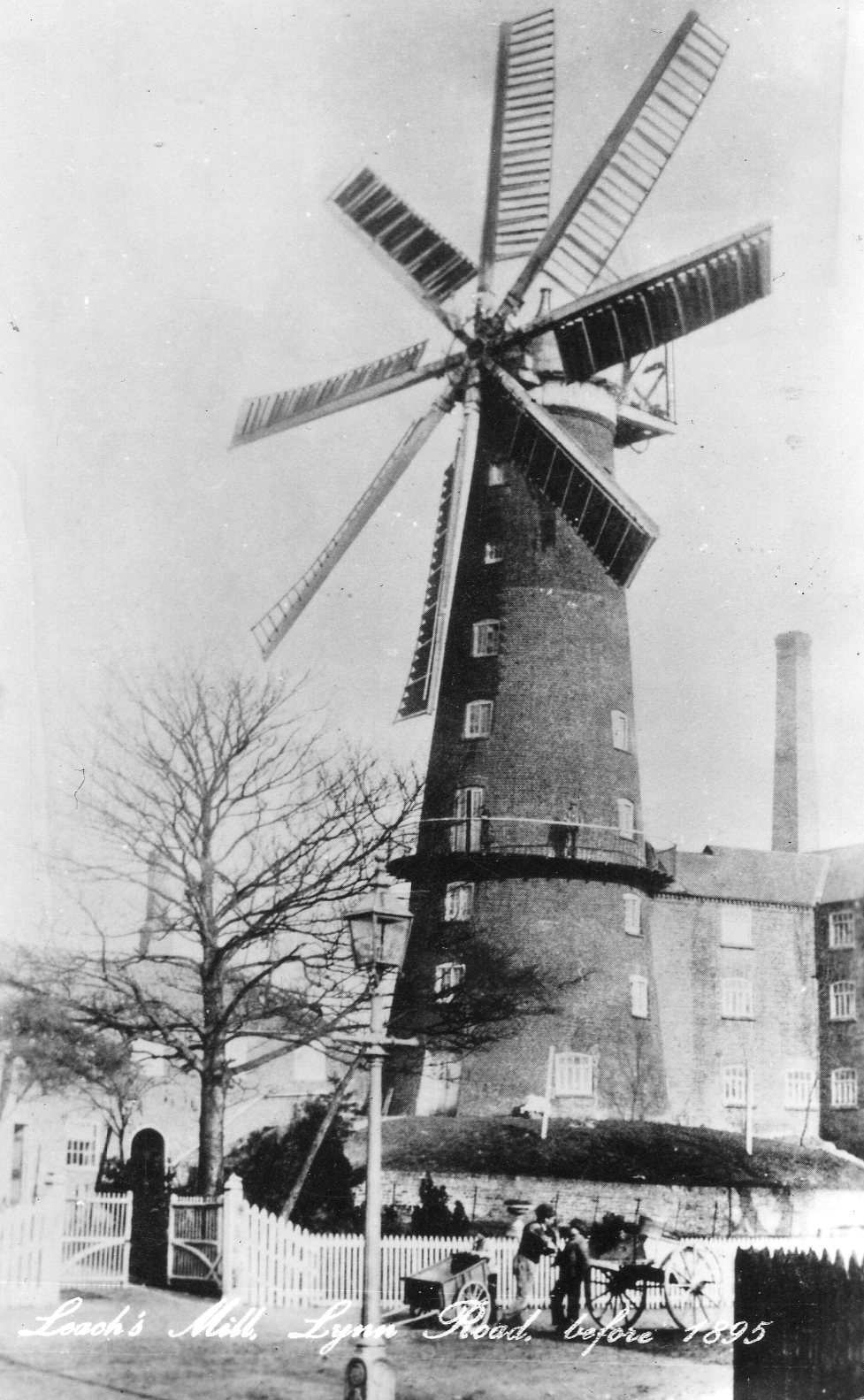 Leach's Mill, Lynn Road, Wisbech, Cambridgeshire pre 1895.